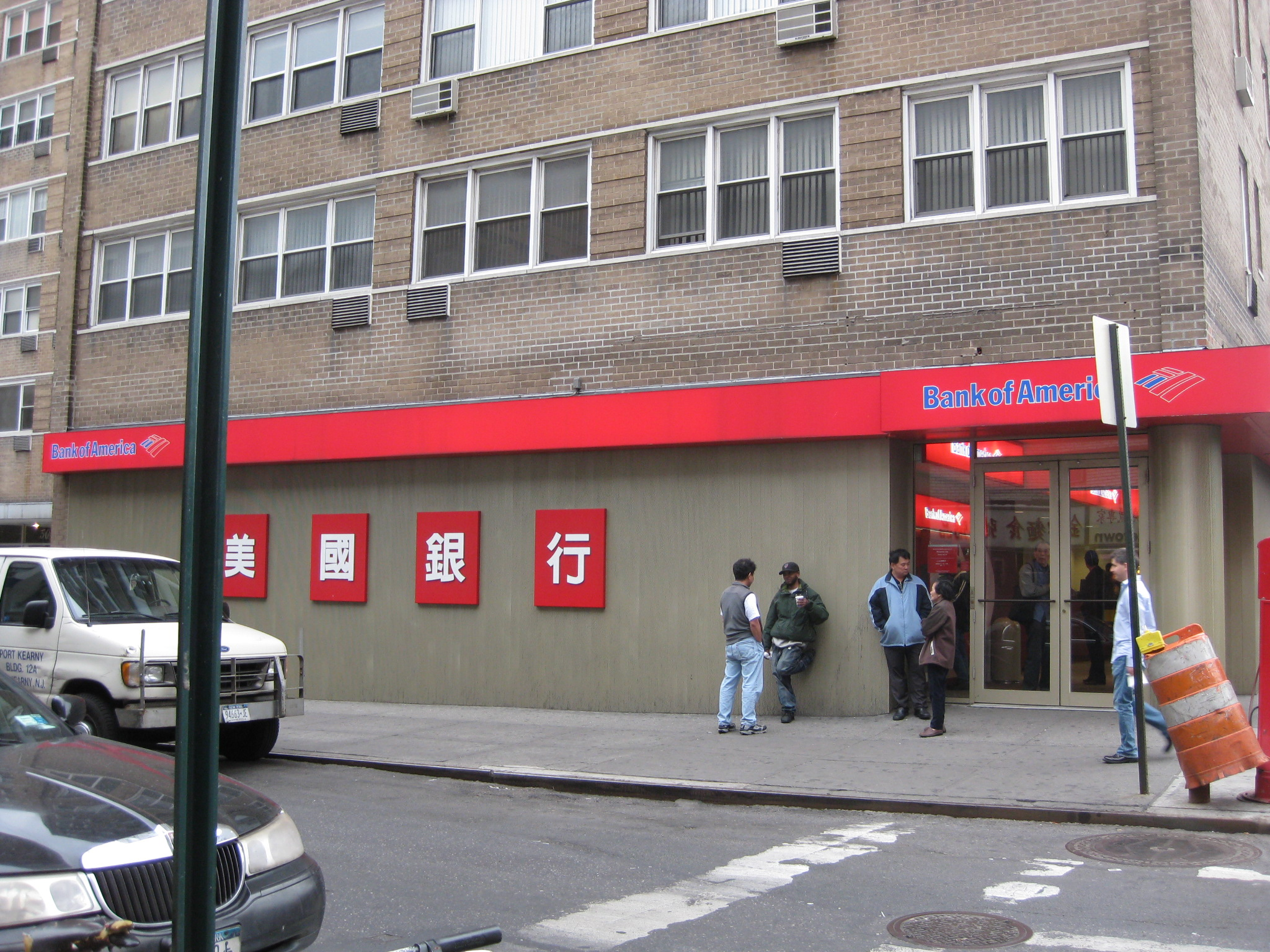 Bank of America (Chinese: 美國銀行 Měiguó Yínháng) Chinatown-Bayard branch - Chinatown, Manhattan - 50 Bayard St New York NY 10013